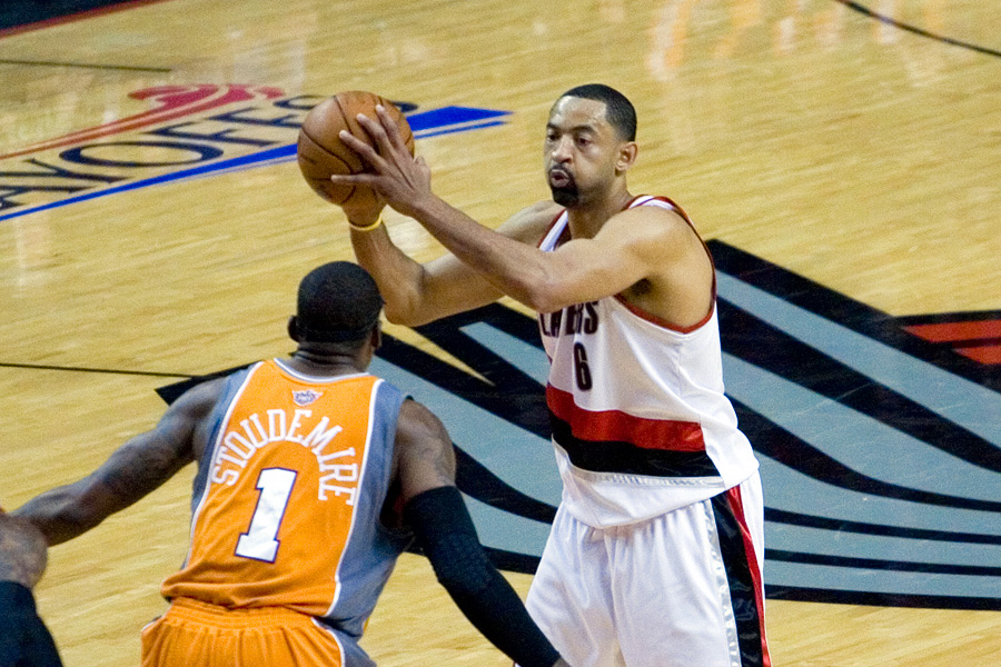 Juwan Howard against Amar'e Stoudemire